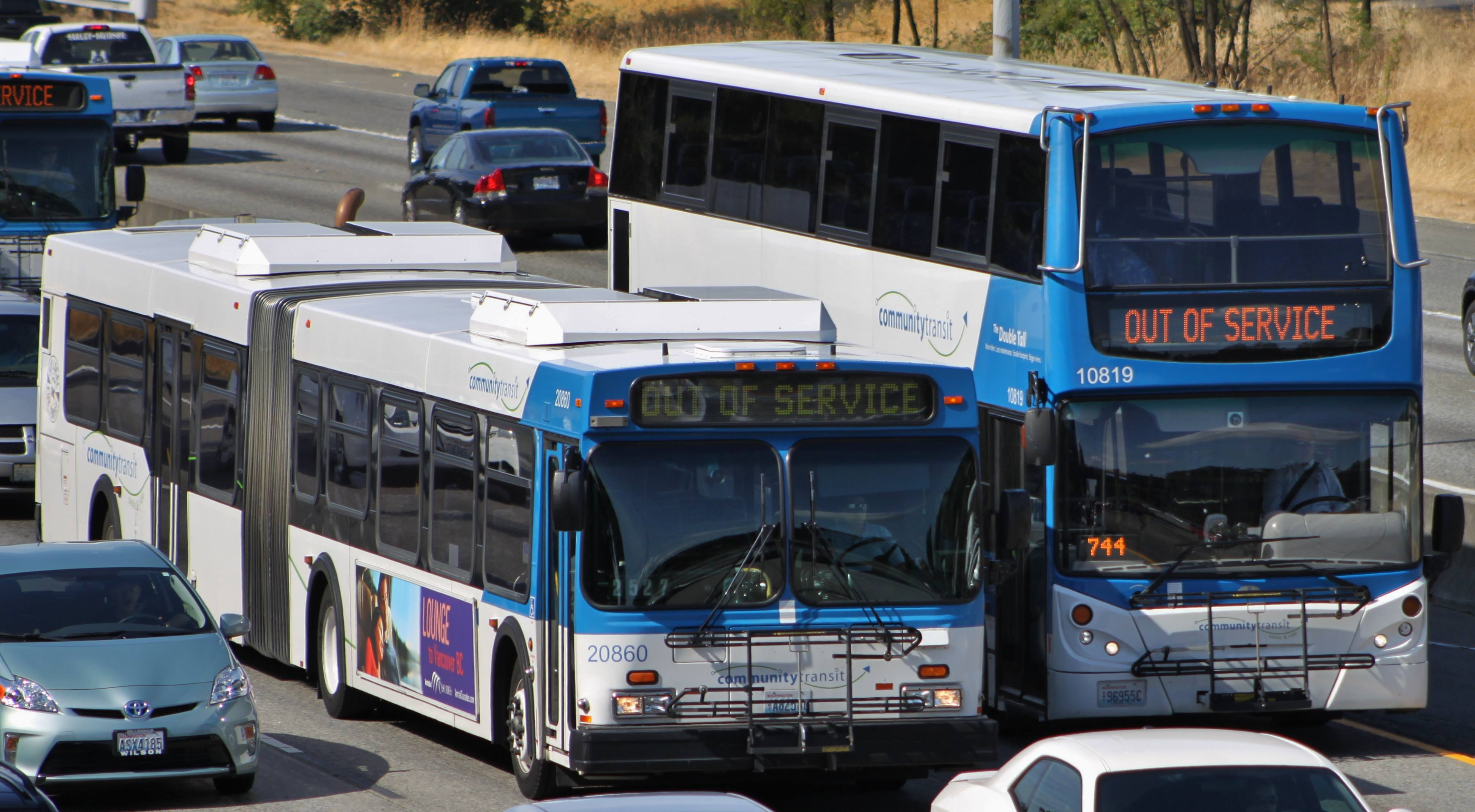 Two Community Transit commuter buses on Interstate 5, deadheading to Seattle prior to the afternoon commute. On the left is a 2000 New Flyer D60LF articulated bus and on the right is a 2011 Alexander Dennis Enviro500, a double-decker bus branded as the "Double Tall".